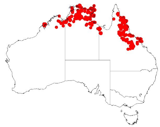 Acacia multisiliqua Occurrence data from Australasian Virtual Herbarium downloaded from on 8 December 2018